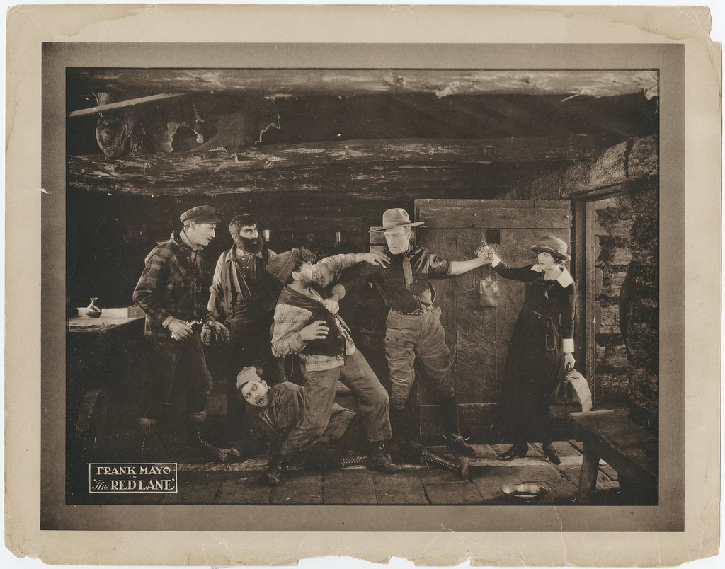 Lobby card for the American drama film The Red Lane (1920) with Frank Mayo and Lillian Rich. Approximately 27.8 x 35.5 cm. Part of the Western silent films lobby card collection, 1912-1930. Cite as Yale Collection of Western Americana, Beinecke Rare Book & Manuscript Library, Yale University. Bibliographic Record Number 2020110. View our Record Permalink.